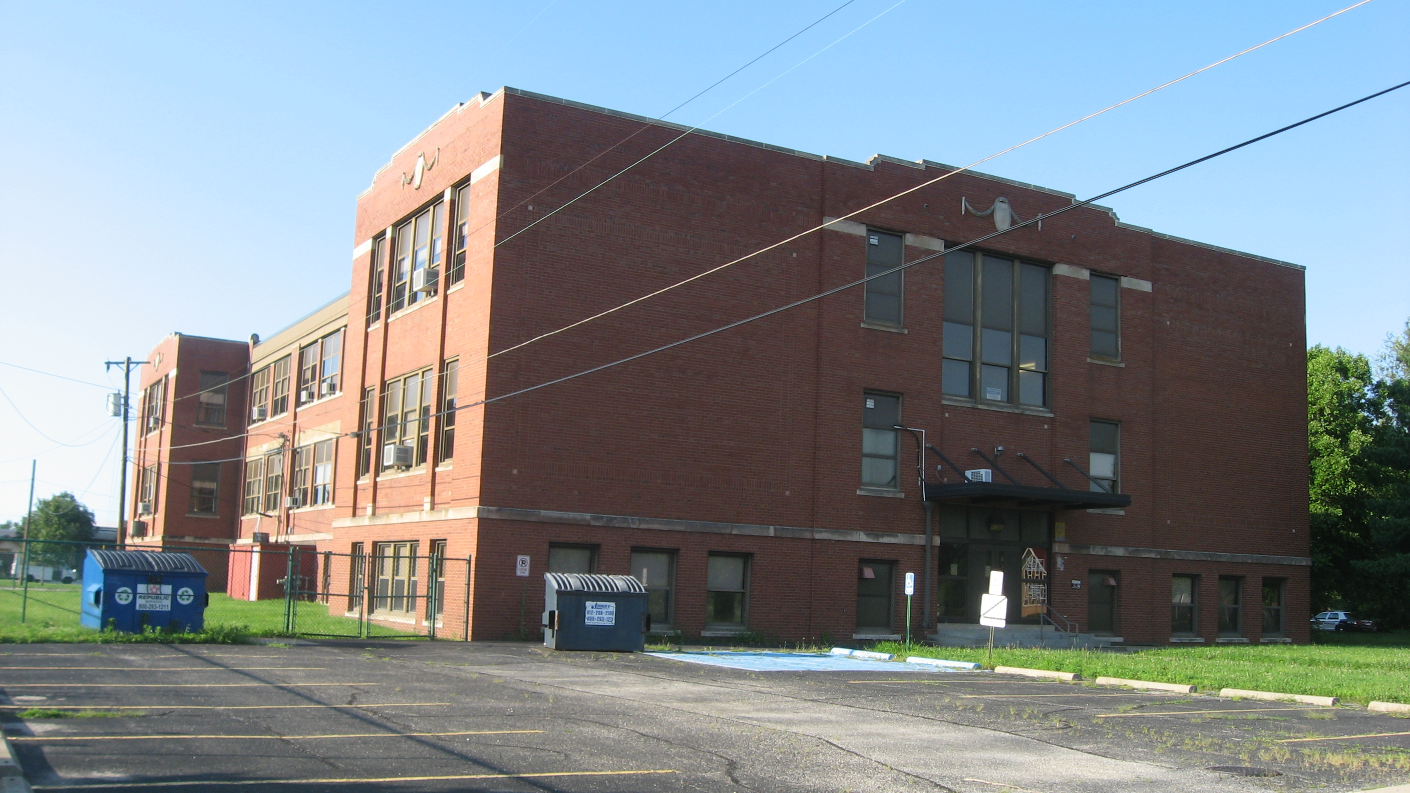 Southern side of the Booker T. Washington School, located at 1201 S. Thirteenth Street in Terre Haute, Indiana, United States. Built in 1914, it is listed on the National Register of Historic Places.